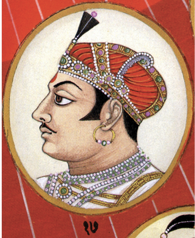 Rana Mokal Singh and his mother Hansa Bai portrayed far right